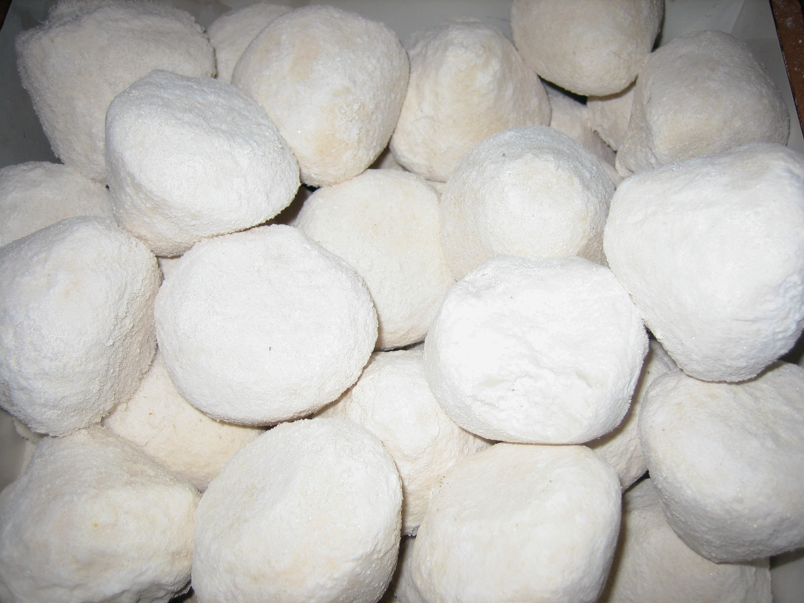 White jameed balls in a souk in the Old City of Jerusalem